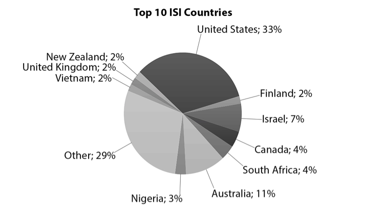 The distribution of countries represented by authors published in journals of the Informing Science Institute from its inception through December of 2019